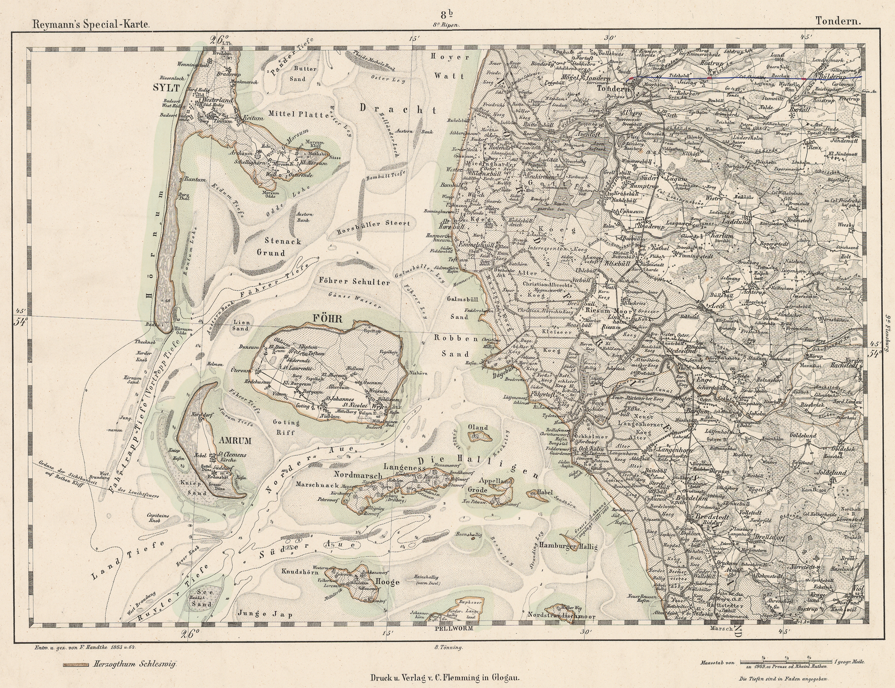 map sheet 8B Tondern, northwest Schleswig (Germany), southwest Denmark